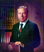 from the public domain Congressional Bioguide, image courtesy of the Office of the Clerk, U.S. House of Representatives